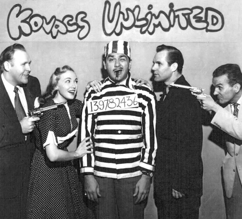 Postcard photo of the cast of Kovacs Unlimited, which was sent in response to viewer mail. All cast members signed the card. From left-Eddie Hatrak, Edie Adams, Ernie Kovacs, Trygve Lund and Andy McKay. Many of those pictured also worked with Kovacs on this early morning WPTZ-TV show in Philadelphia, which was canceled because NBC insisted all affiliates carry its new program, Today.